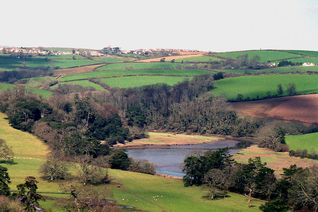 Tidal River Tiddy, north of St Germans